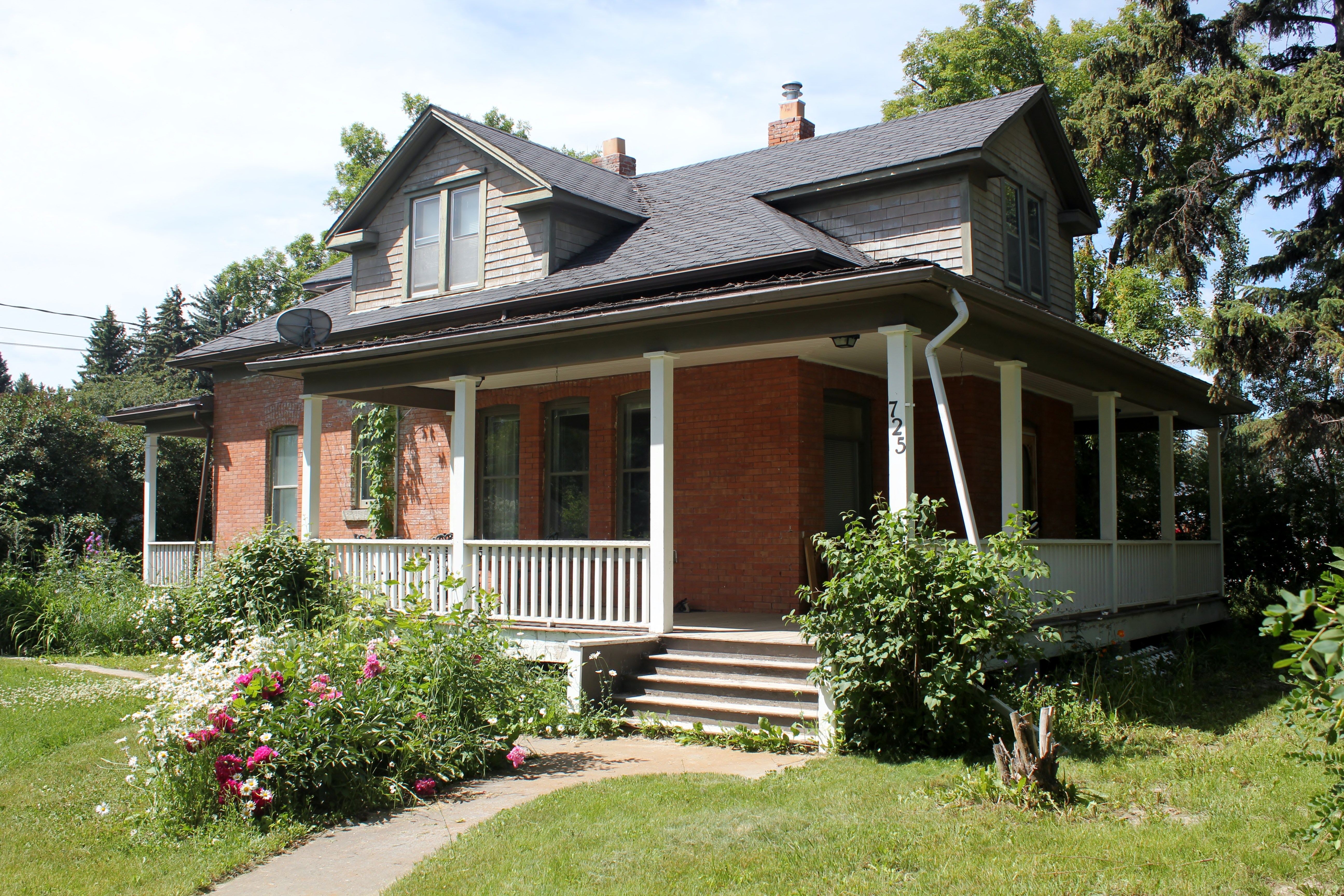 Clark Residence, The